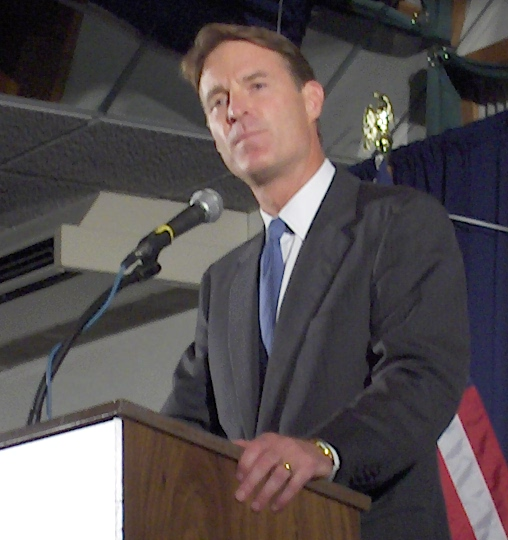 Bayh speaking at a Democratic campaign event